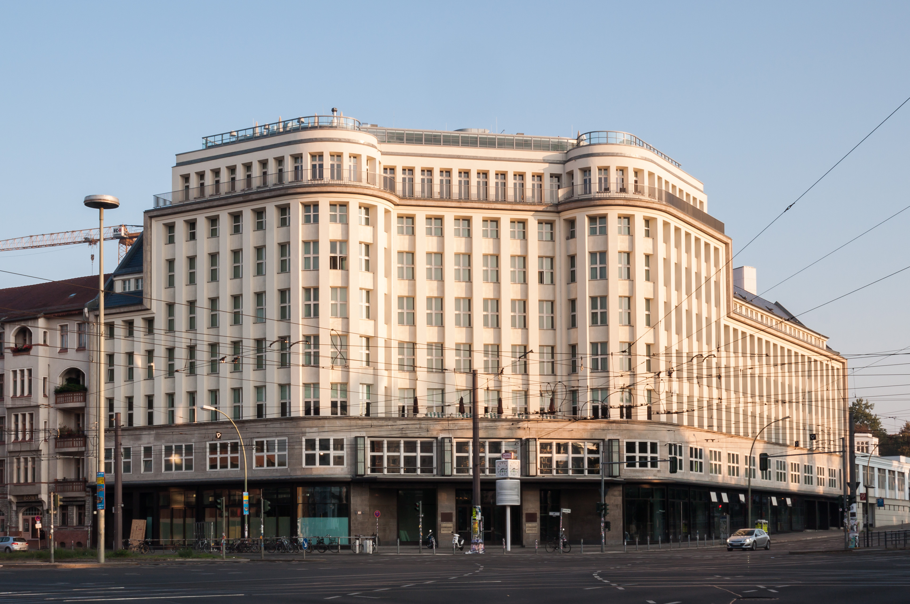 The former "Kaufhaus Jonaß", today "Soho House Berlin".